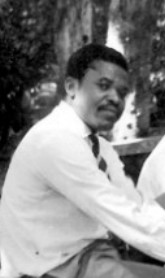 Federico Ngomo Nandong — 20th century politician of Equatorial Guinea.